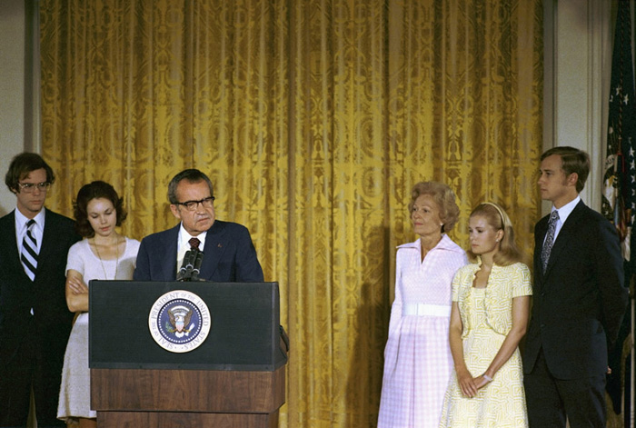 President Richard Nixon, flanked by his family, delivering his farewell remarks to the White House staff in the East Room of the White House, photograph by Karl Schumacher, August 9, 1974. Courtesy National Archives, Nixon Presidential Materials Staff, College Park, Maryland.